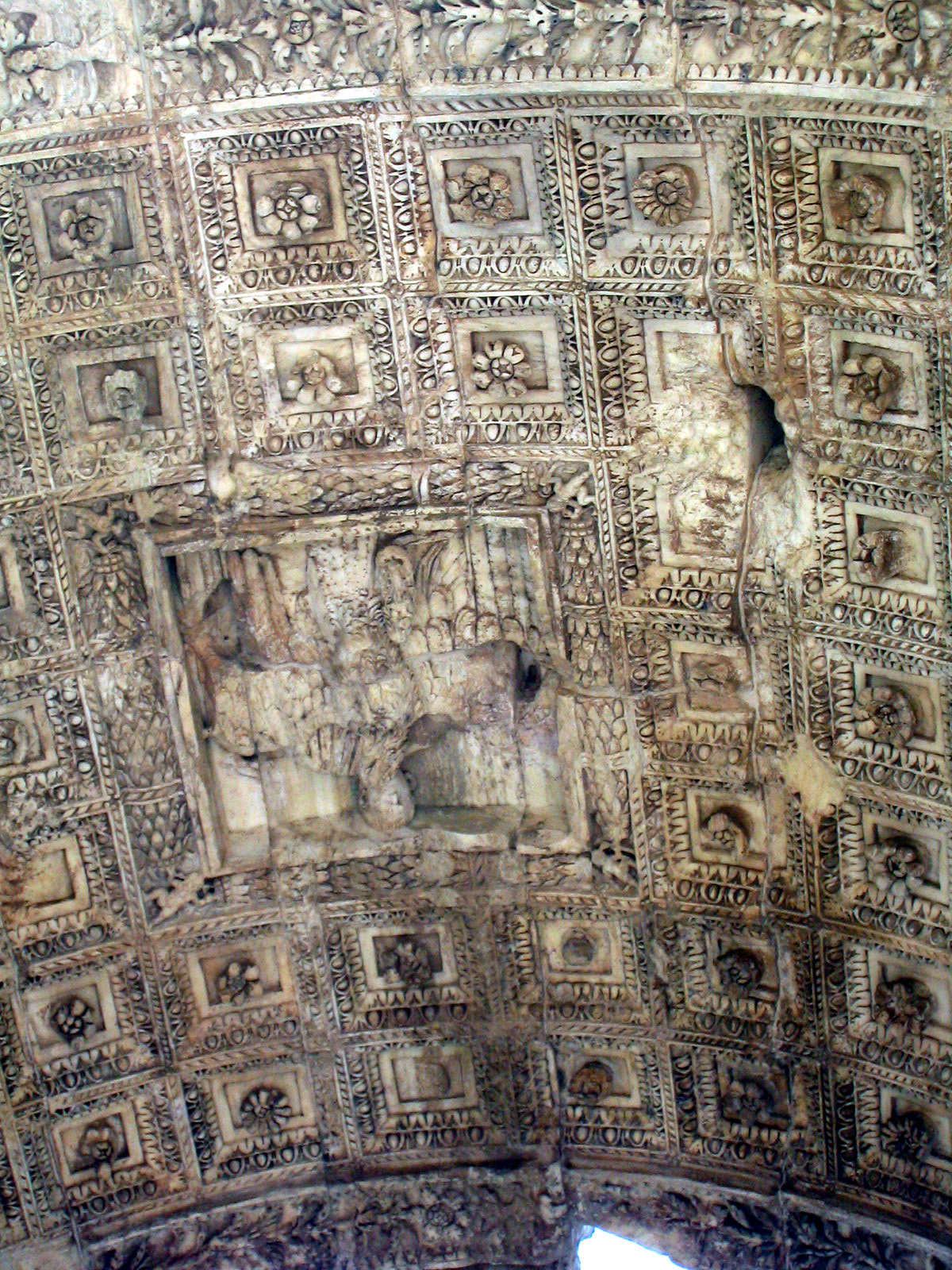 In the central relief, the spirit of the emperor Titus soars to heaven on the back of an eagle.Relief under the Arch of Titus main arch.